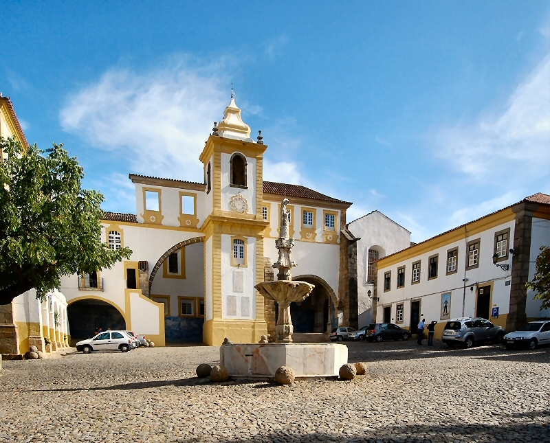 Portalegre_Municipality The file name is not correct. Is Correct Mosteiro de São Bernardo